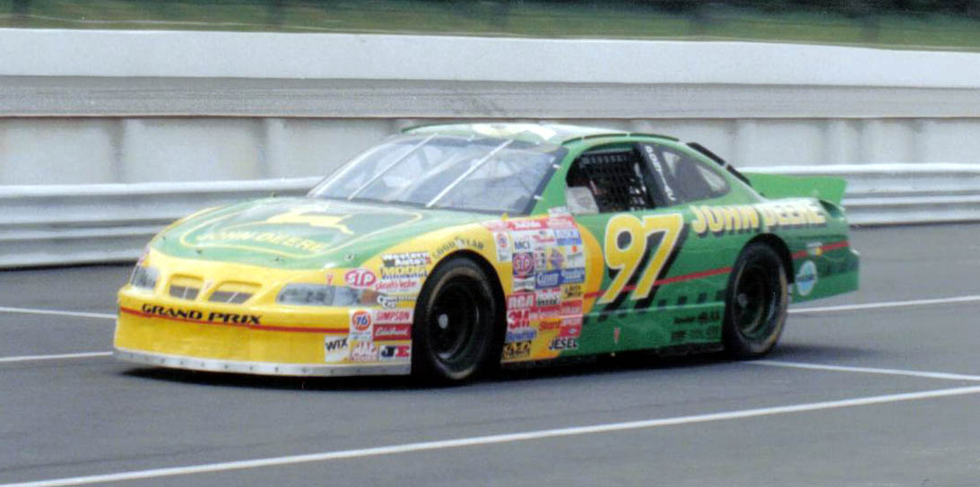 NASCAR driver Chad Little at Pocono in 1997.